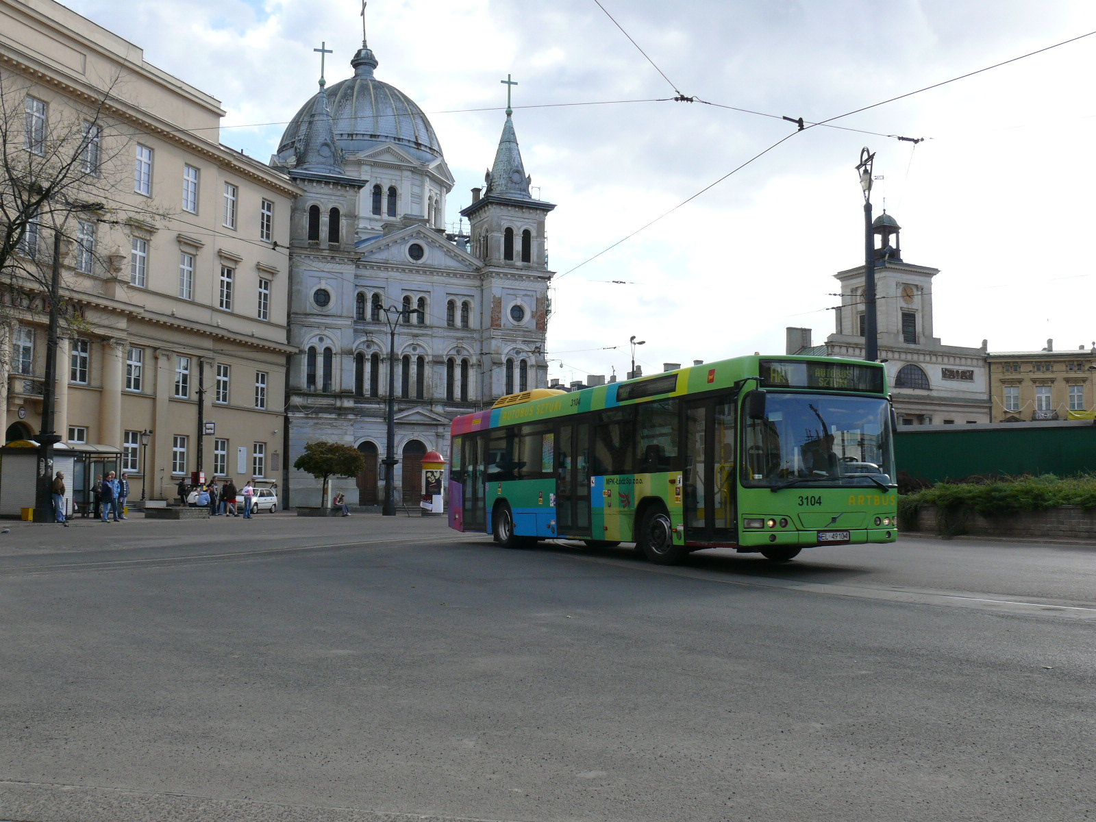 Volvo 7000 ARTbus 2007 in Łódź, Poland. Built 2001, MPK Łódź operator.